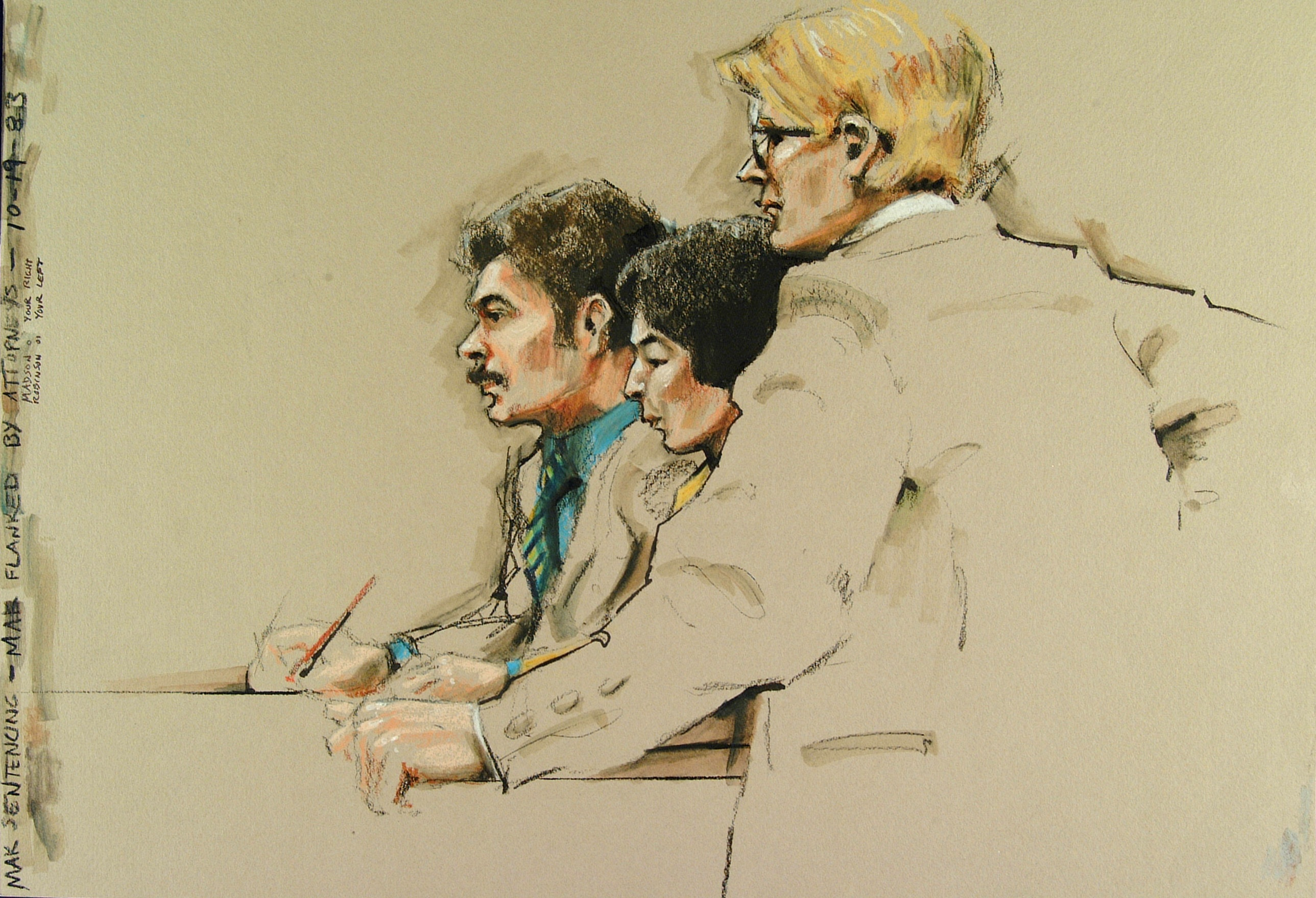 Courtroom sketch showing an accused person (centre, in yellow) flanked by attorneys at sentencing, drawn in about eight minutes. MAK Sentencing - MAK flanked by attorneys - 10-19-83 Madson on your right Robinson on your left